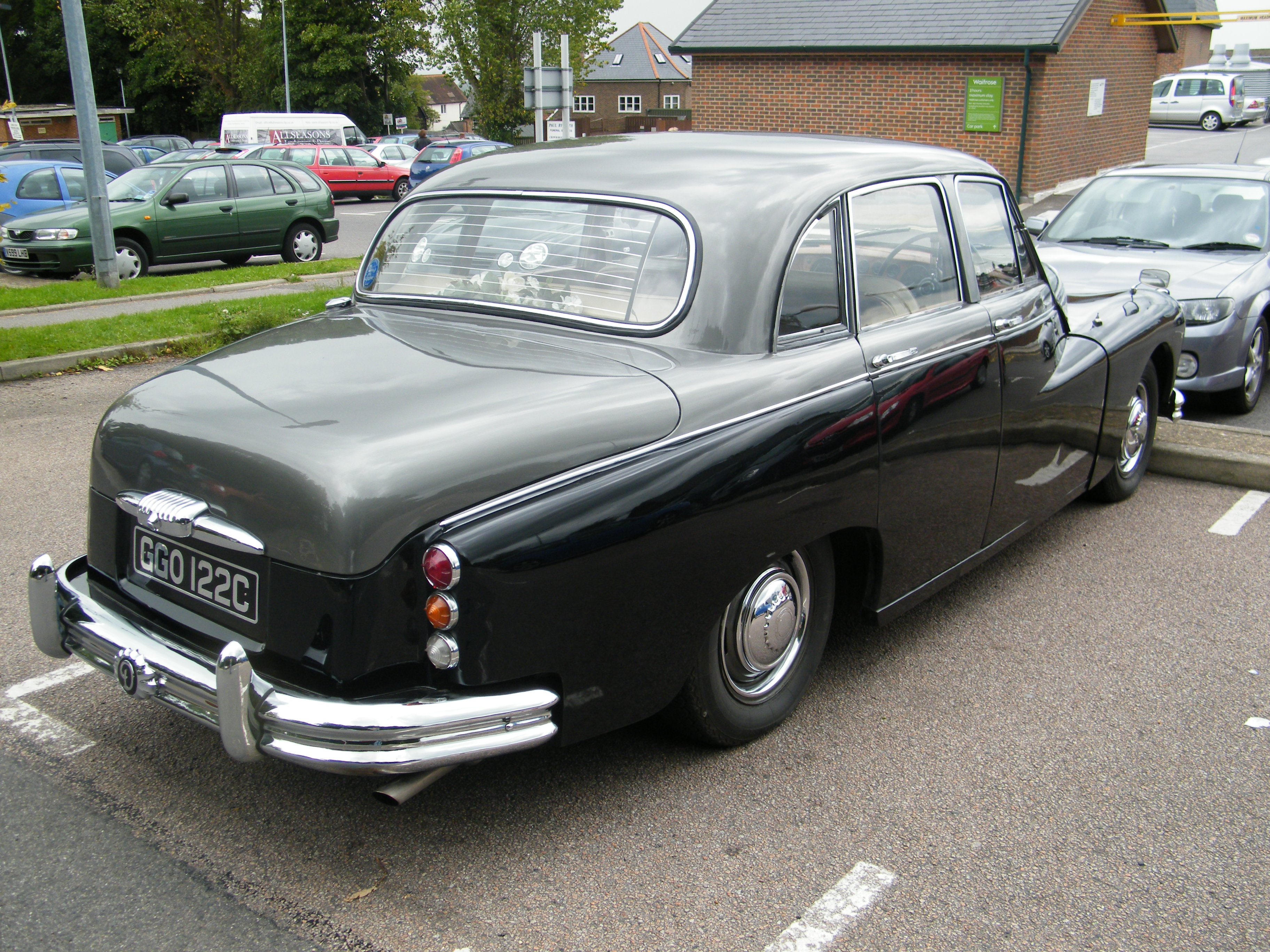 1965 Daimler Majestic Major first registered 14 July 1965, 4561 cc